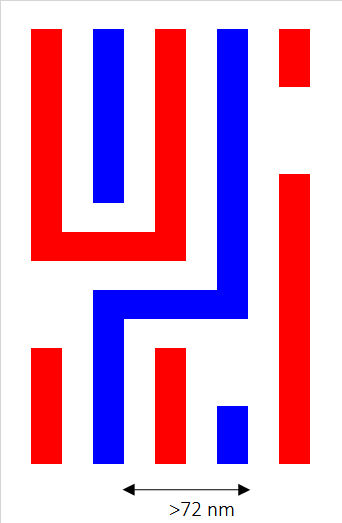 The most common multiple patterning approach is pitch splitting, whereby adjacent features are assigned to different masks, indicated by different colors.